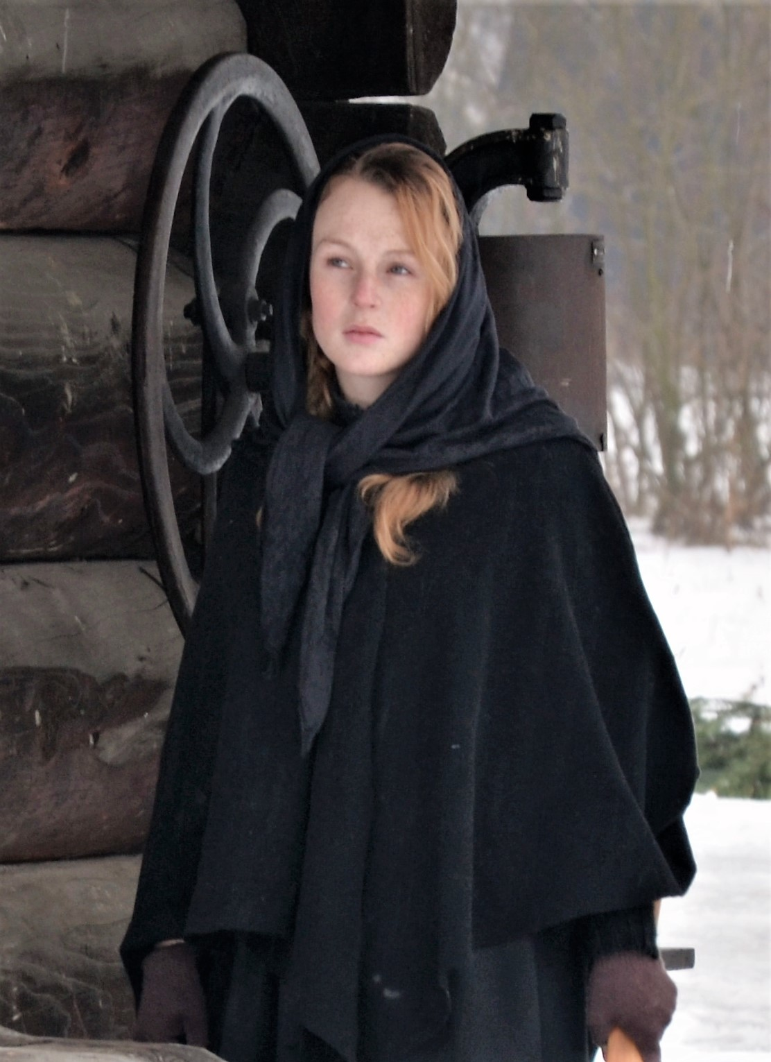 Maja Jötten